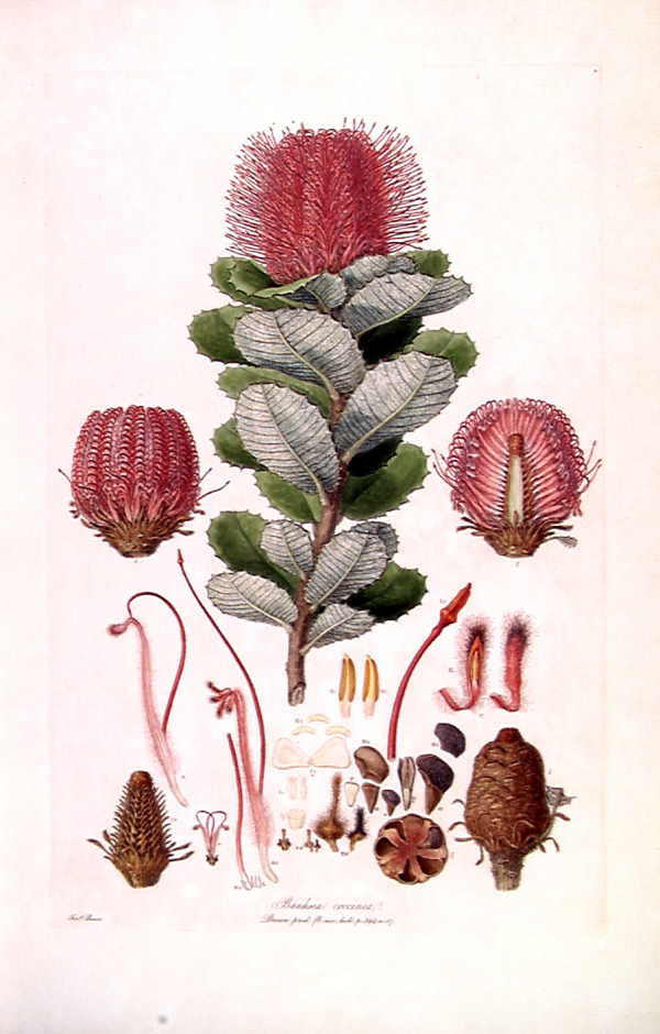 This is a scan of Plate 3 from Ferdinand Bauer's Illustrationes Florae Novae Hollandiae. The plant featured is Banksia coccinea (Scarlet Banksia).